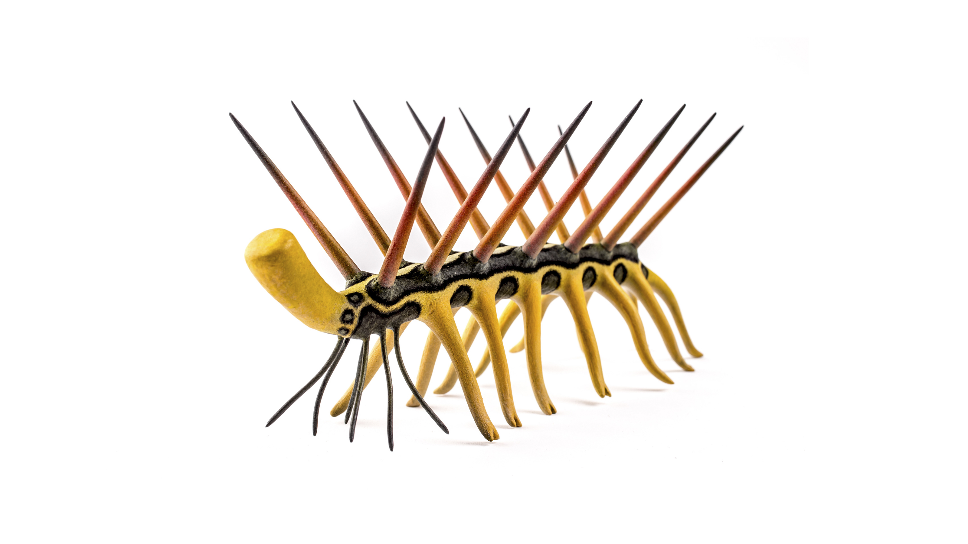 Reconstruction. 5:1 scale.